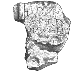 Funerary inscription for Aurelius Ex[....]imi from Cohors I Dalmatorum, found 1790 at High Rochester fort.